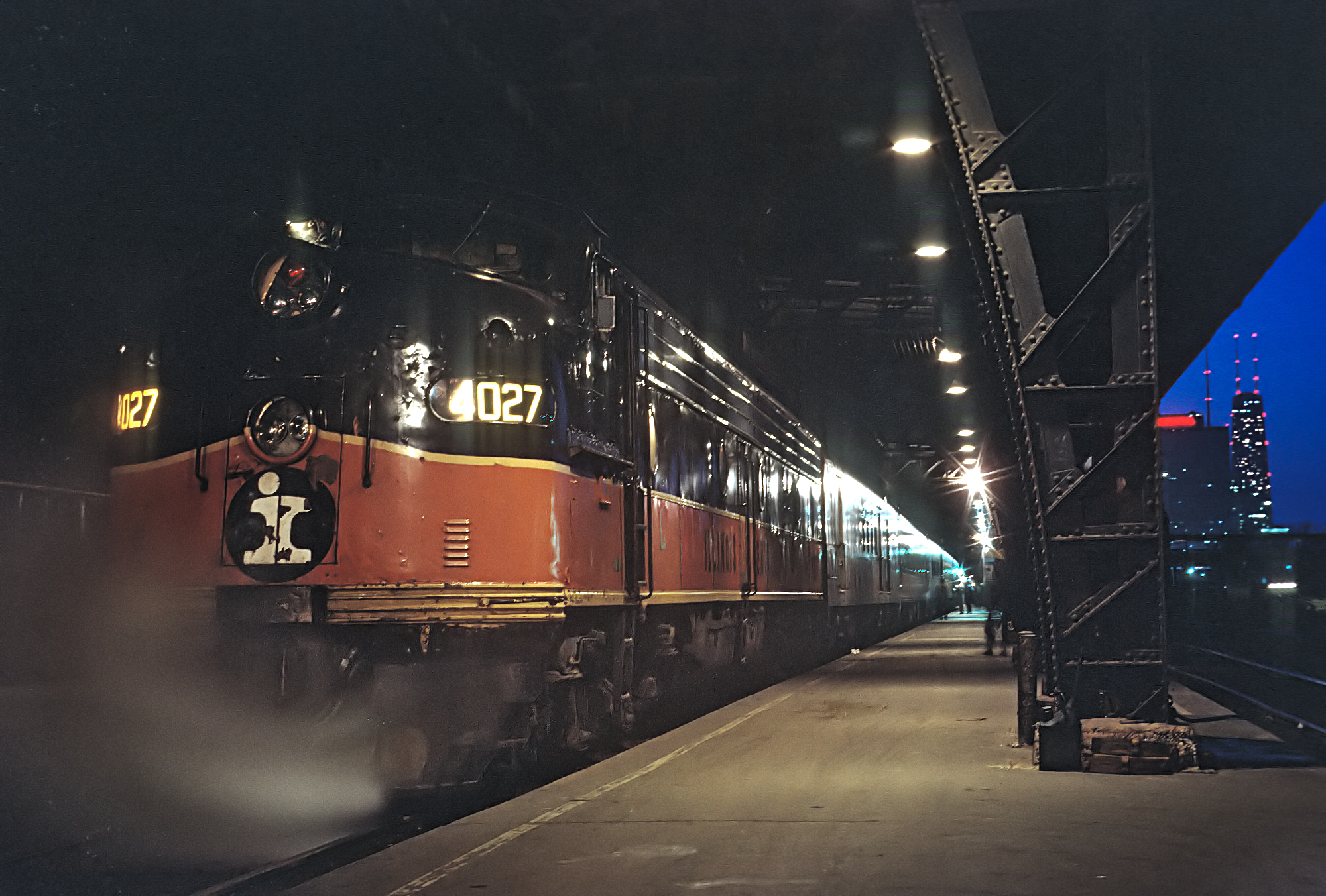 Train 11, The Hawkeye, at Central Station, Chicago, IL on April 4, 1971 with the John Hancock Building at extreme right. A Roger Puta Photograph